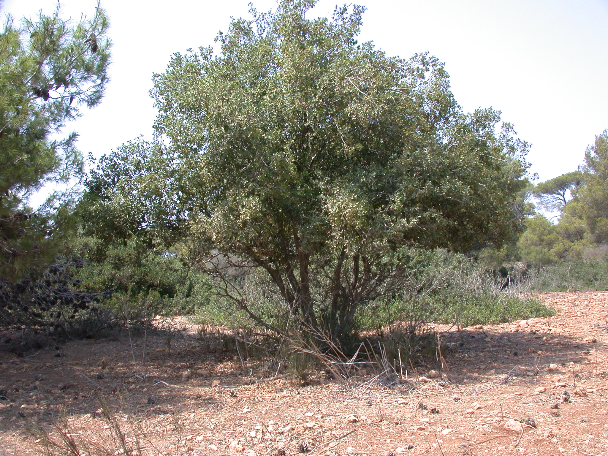 Quercus calliprinos tree, Mount Carmel, Israel, September 7, 2008.